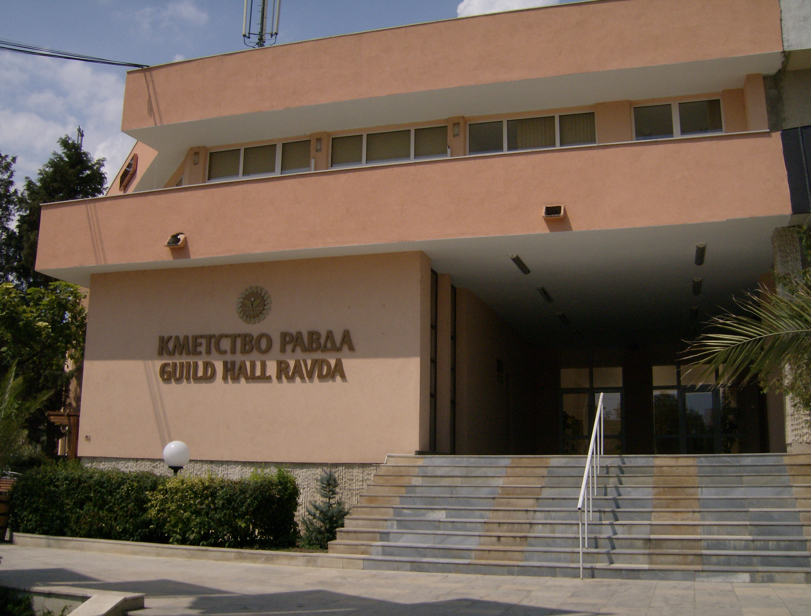 Ravda